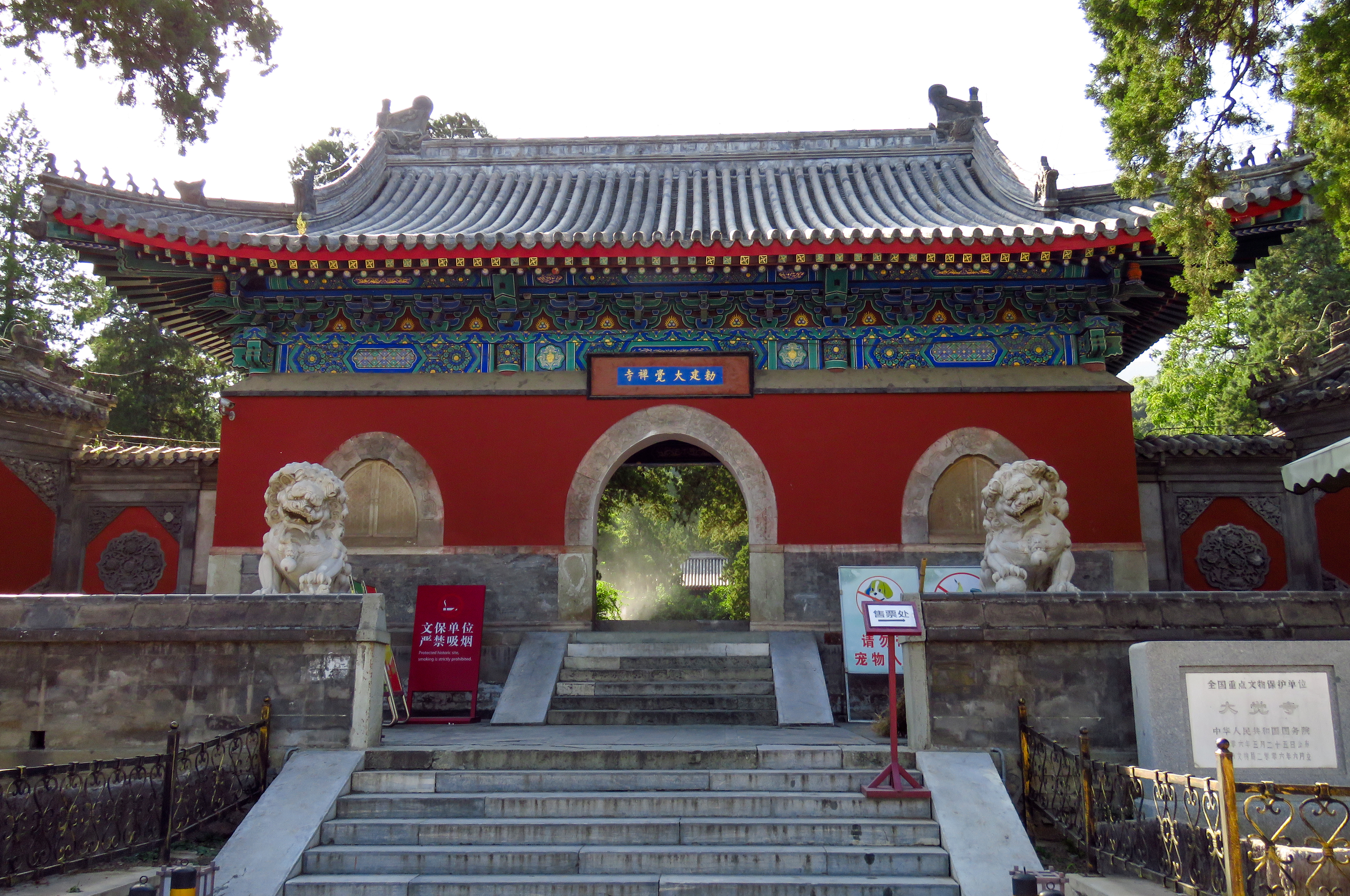 Revisit after years.